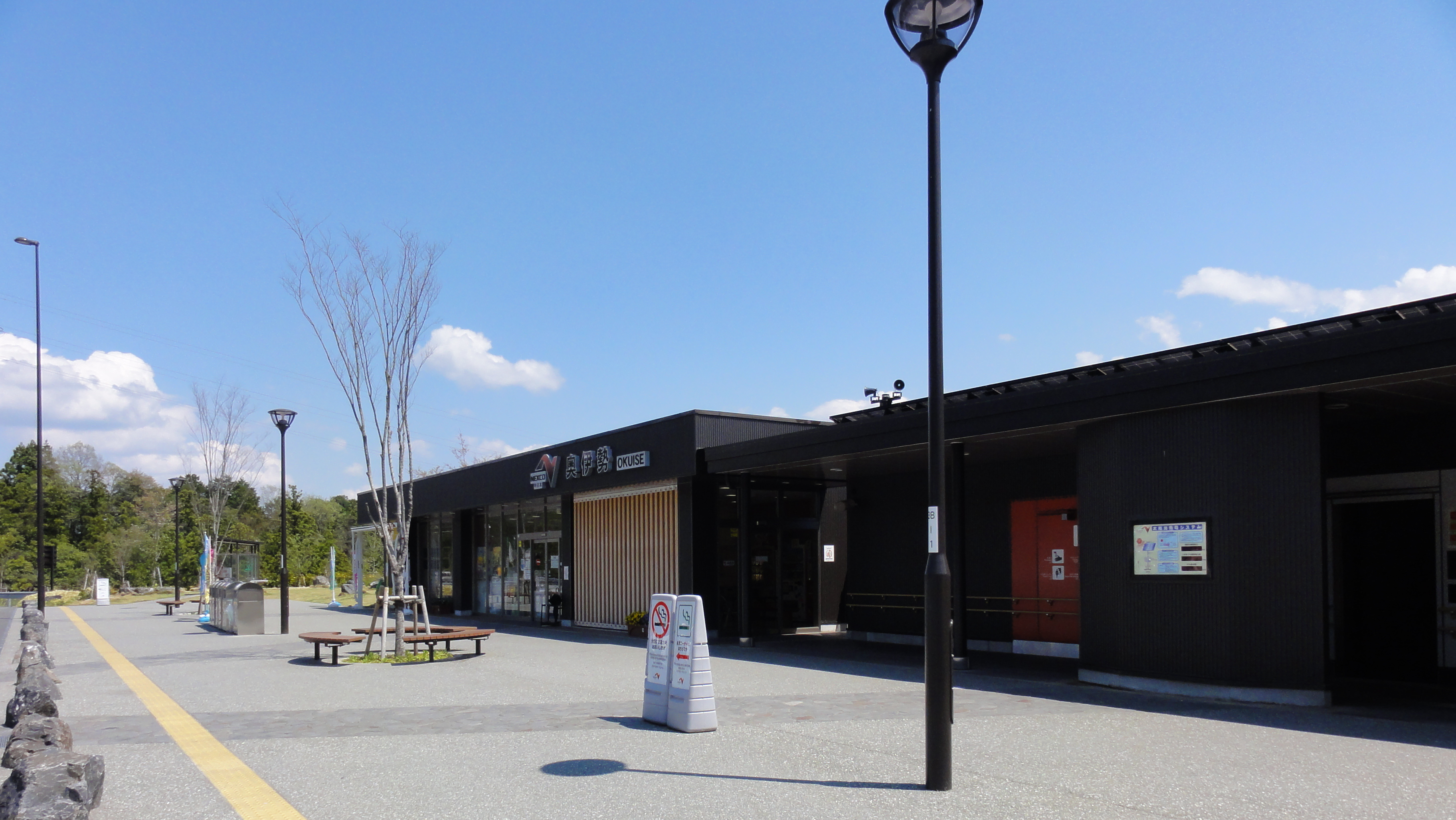 Oku-Ise ParkingArea,Mie pref..,Japan